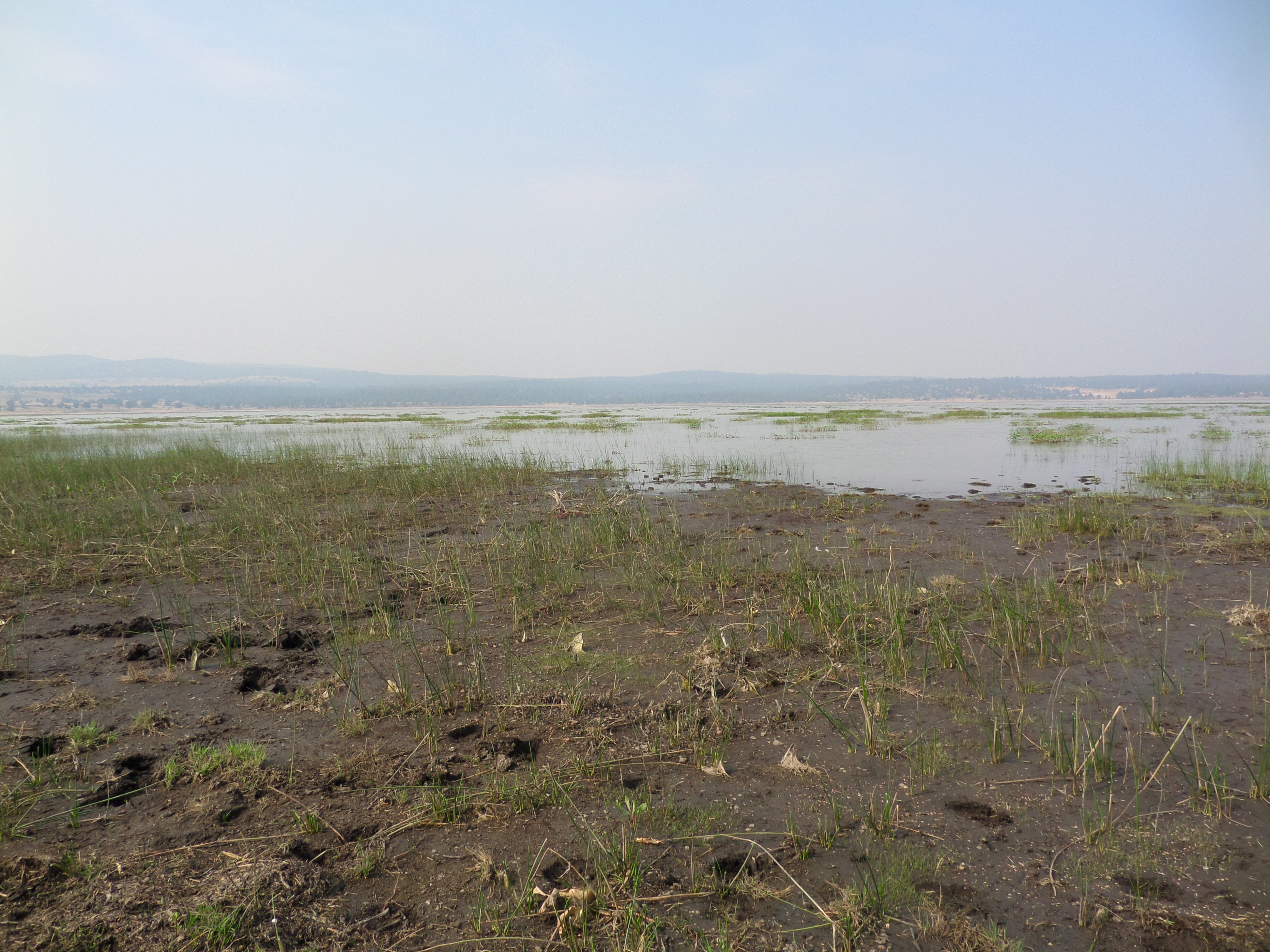 Moon Lake in Lassen County, California. Photo taken July 2018.